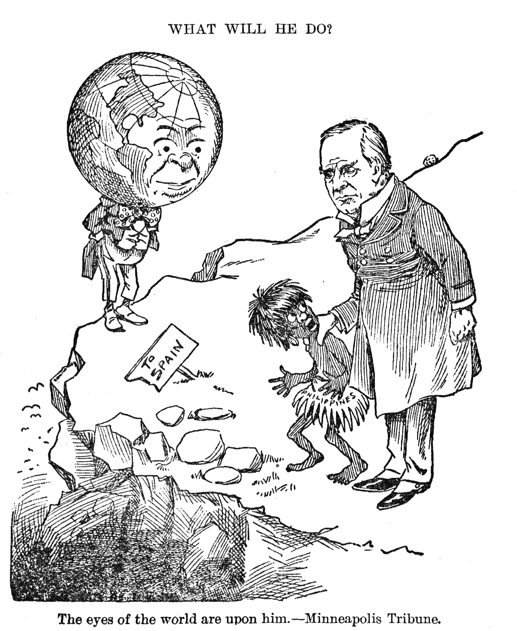 1898 US Political Cartoon. US President William McKinley is shown holding the Philippines, depicted as a savage child, as the world looks on. The implied options for McKinley are to keep the Philippines, or give it back to Spain, which the cartoon compares to throwing a child off a cliff. The option of granting independence seems not to be on the cartoonist's mind.